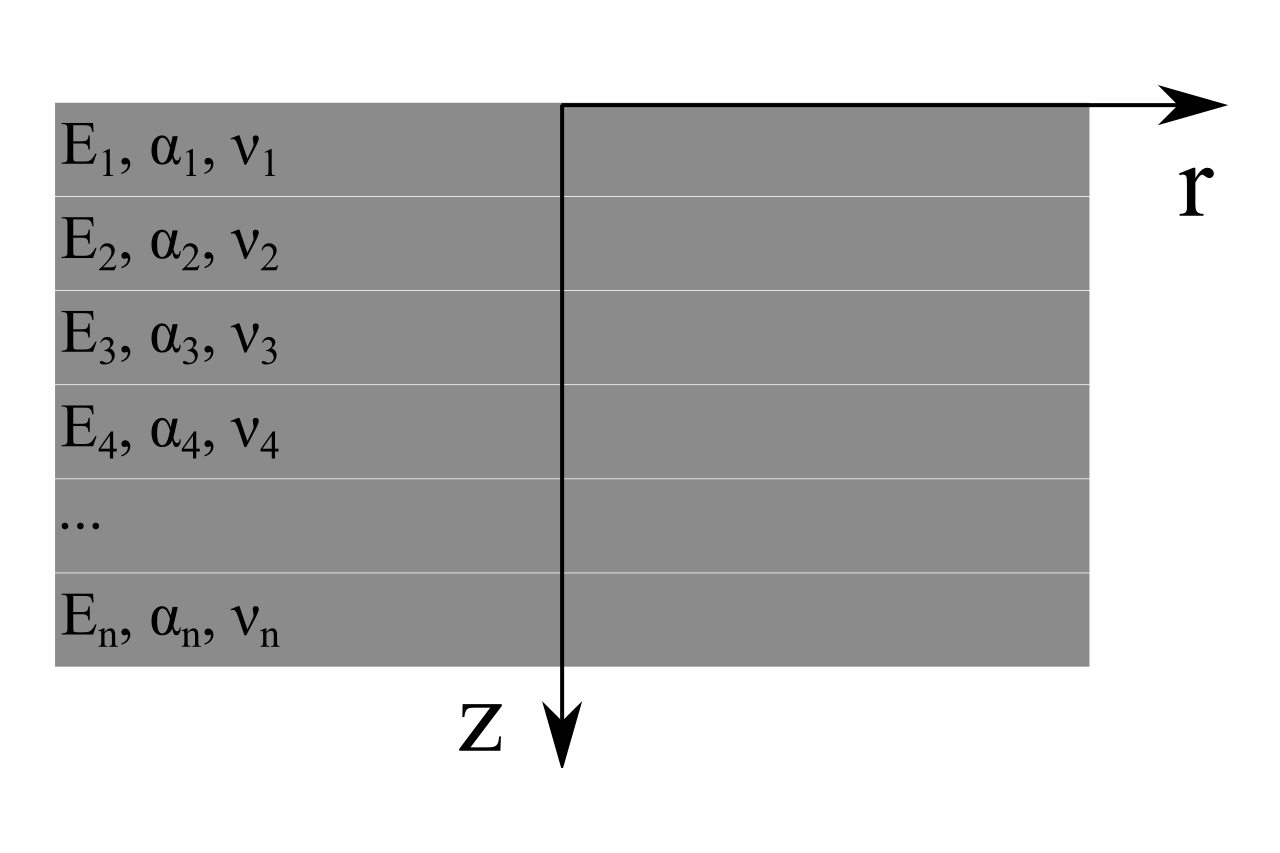 Segmented FGM with n layers. Polar coordinates.